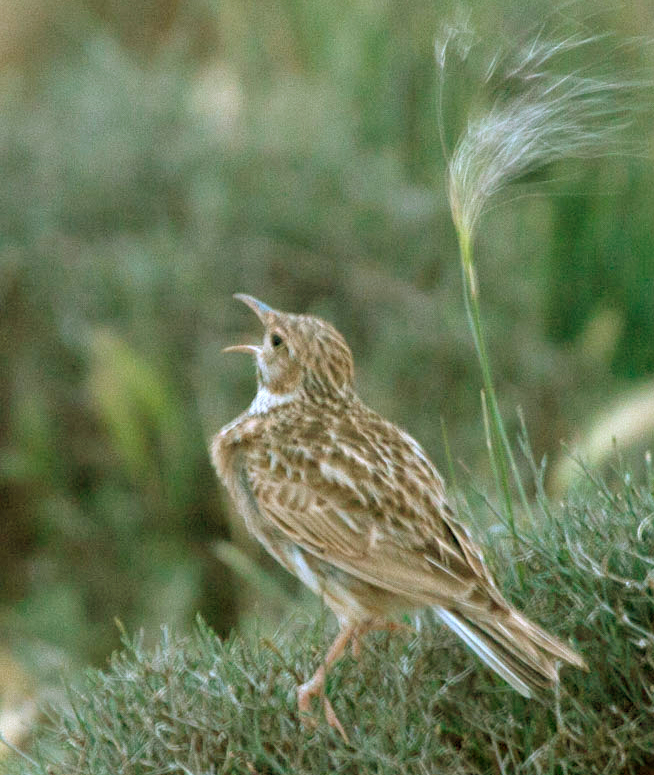 Dupont's Lark Chersophilus duponti singing at dawn, Morocco